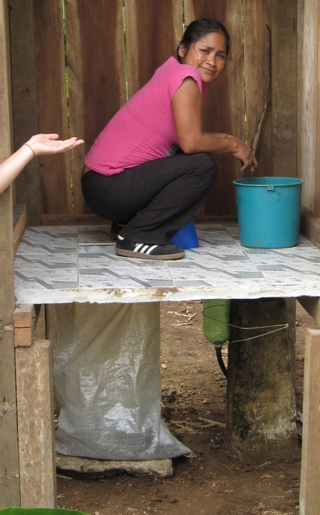 Narcisa is a homeowner happy to receive her UDDT. In the next couple of days after getting it up and running, she showed it to, and shared it with, at least 20 neighbors, all favorably impressed. Pumpuentsa is pretty densely populated, so it is hard to find a private enough place to pull one's pants down. Half of the families have running water, but essentially no one has flush toilets as the clay soil would not absorb extra water ... and they all bathe in the nearby stream downhill.